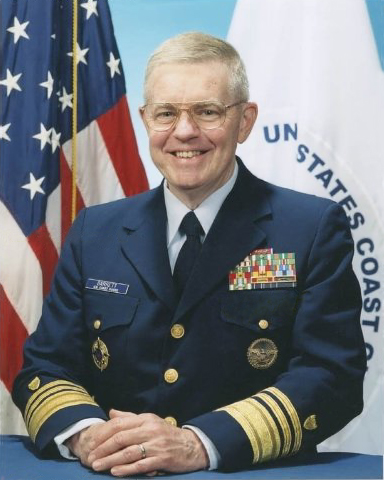 Official photo of VADM Thomas J. Barrett, USCG